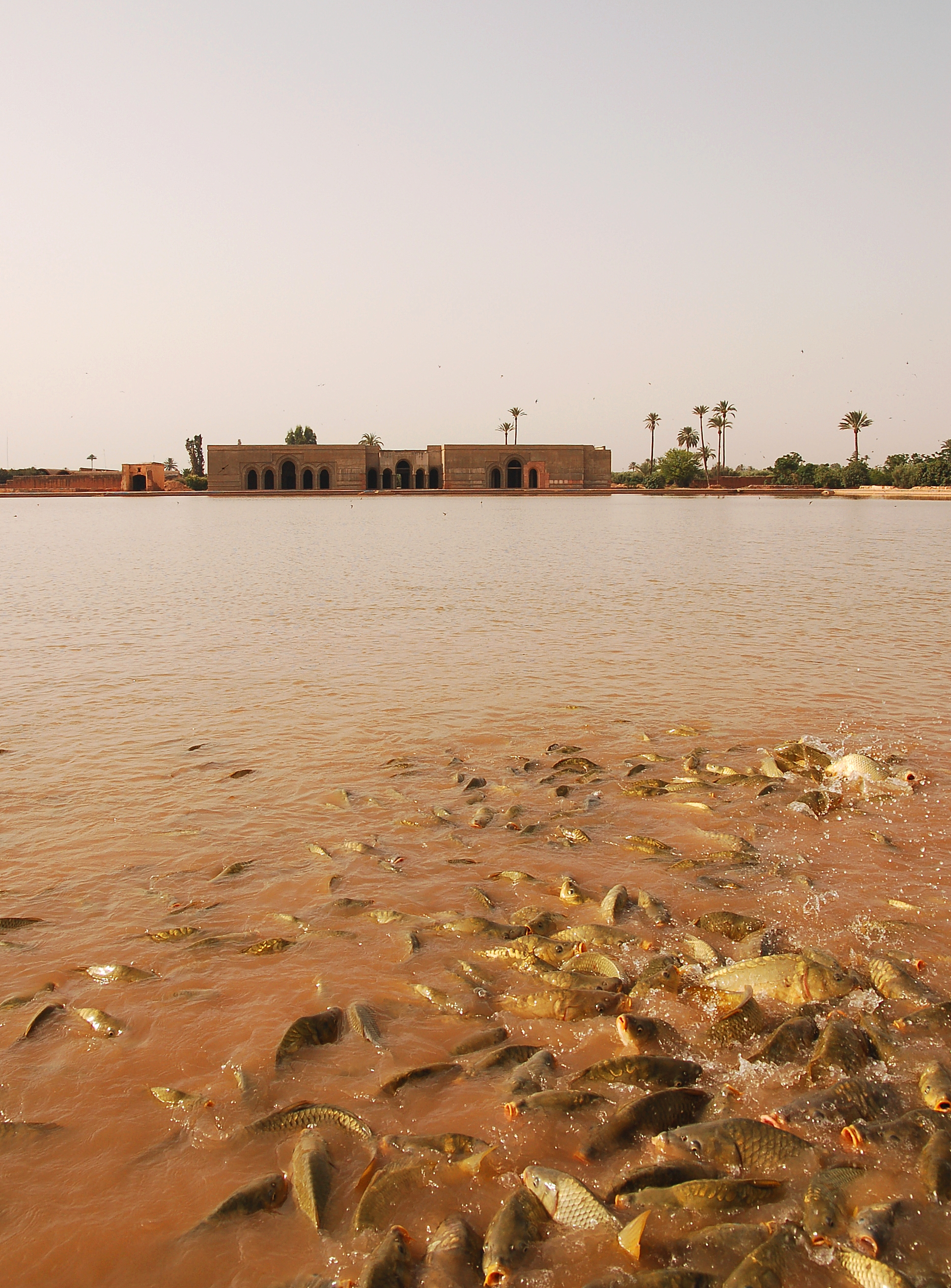 Maroc Marrakech city Royal Palace Agdal